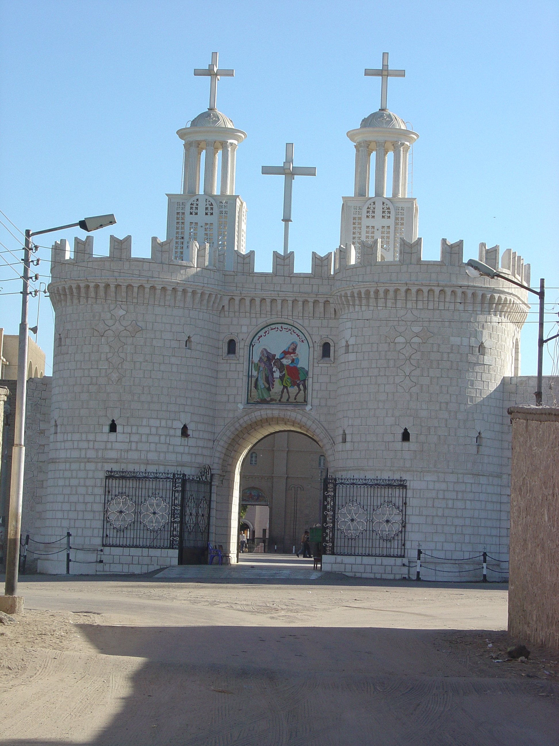 أهم عوامل الجذب السياحي في محافظة أسيوط